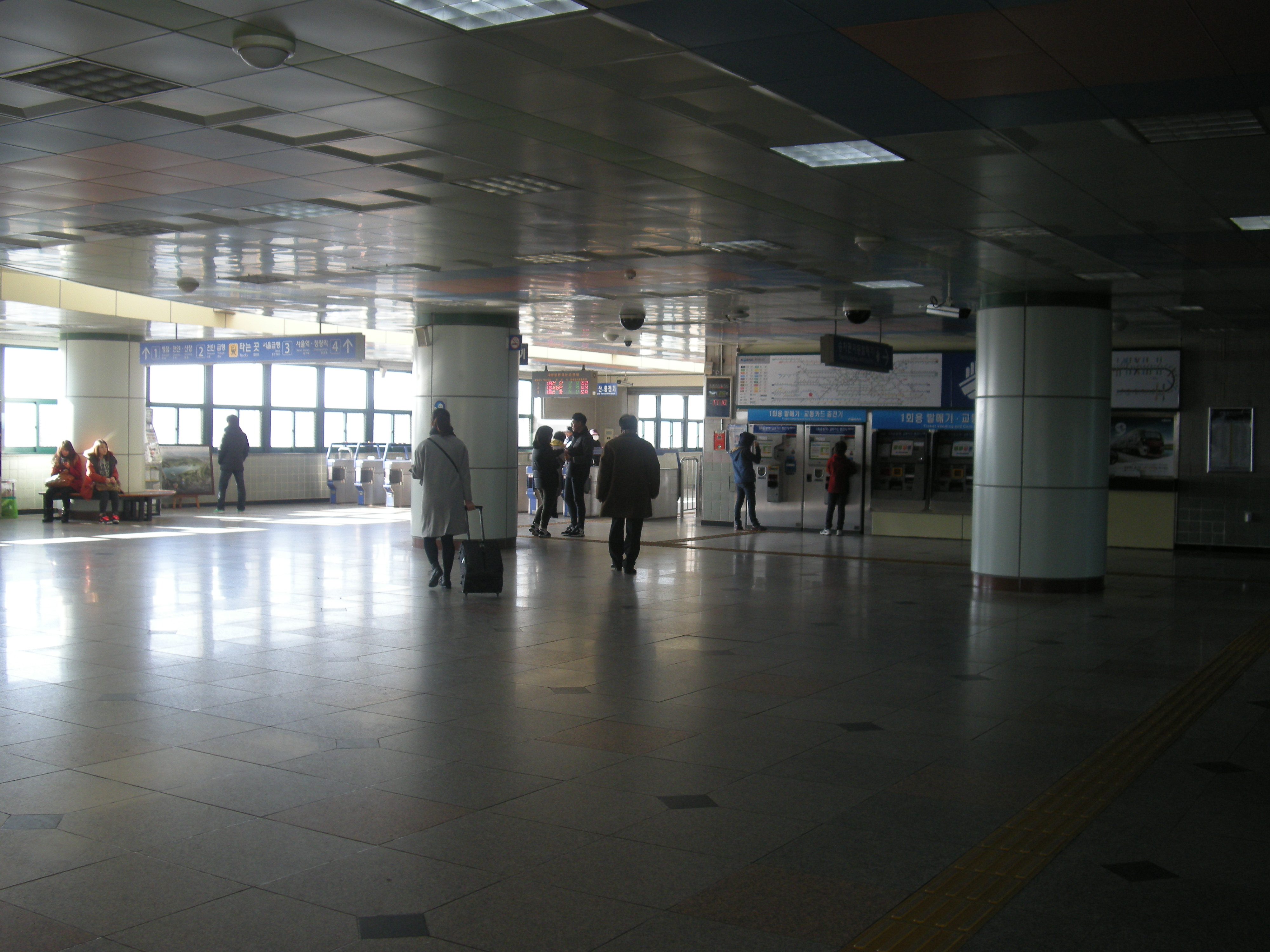 Waiting room of Uiwang Station, Gyeongbu Line (Seoul Metro Line 1)